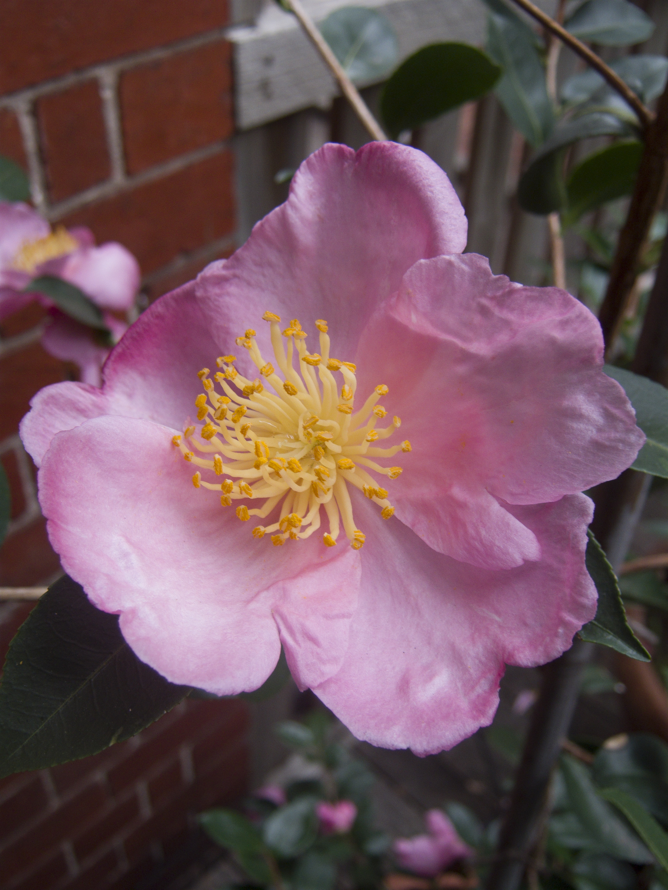 Camellia sasanqua 'Plantation Pink' bred by E.G. Waterhouse in Gordon NSW in 1942; photographed in St Kilda Victoria